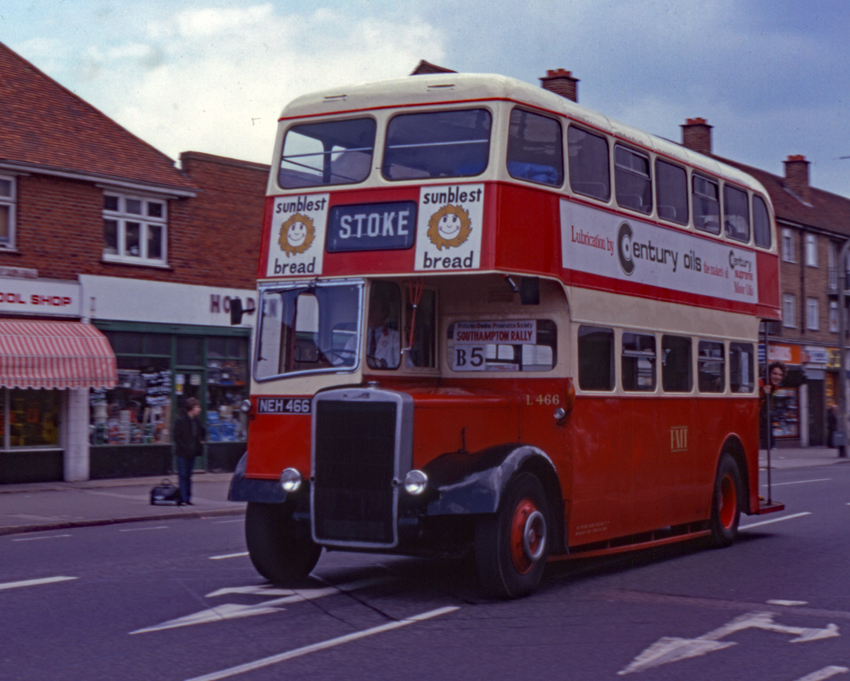 Potteries Motor Traction Leyland OPD2/1 Northern Counties in Bitterne. Taking part in the 1979 Southampton Transport Centenary cavalcade. Fleet number L466, registration number NEH 466. Scanned from a Kodachrome 35mm slide.